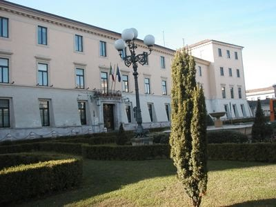 Palazzo Vecchio